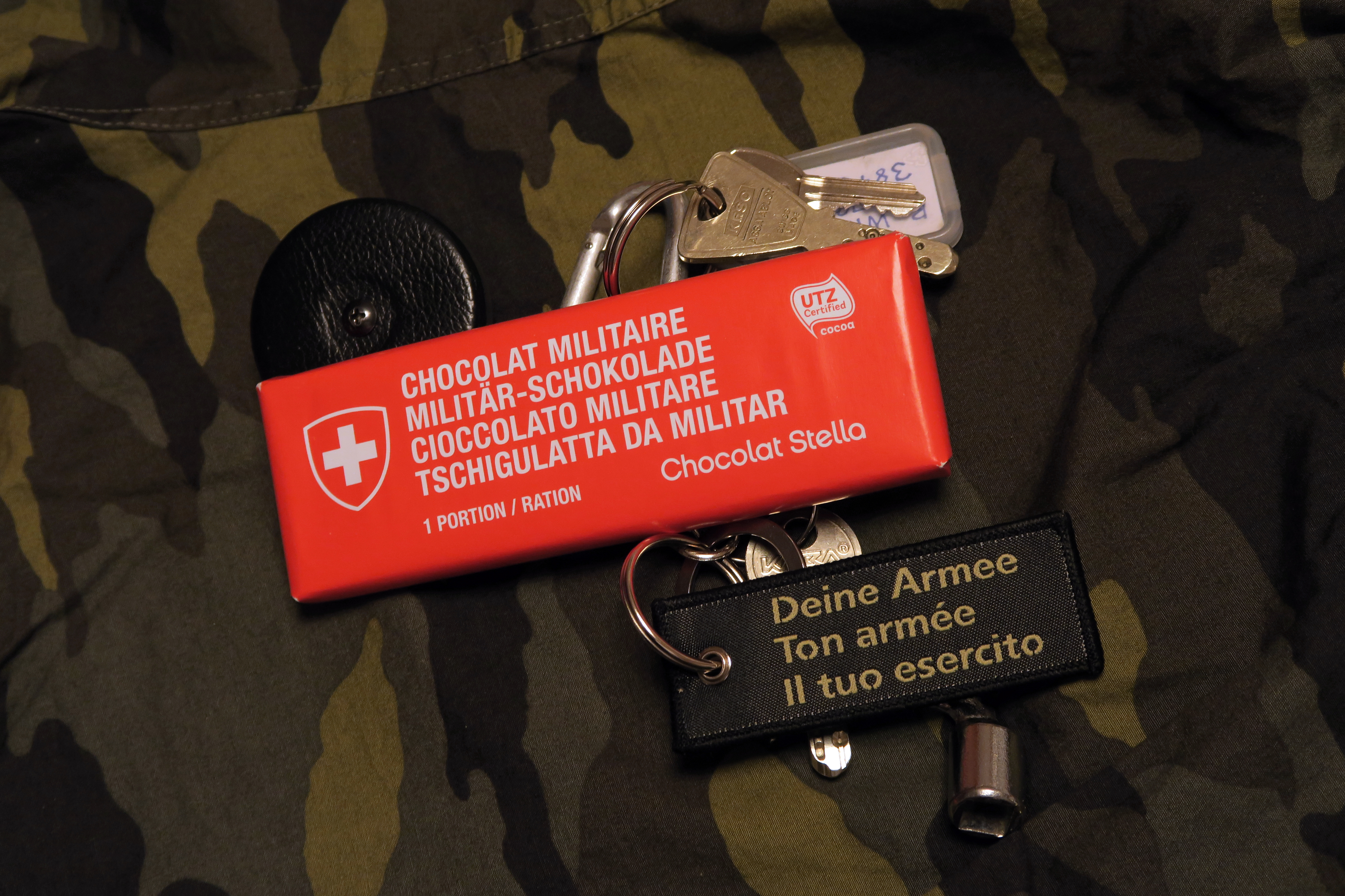 Your Army. Ristl Bat 17, Switzerland, Aug 20, 2015.